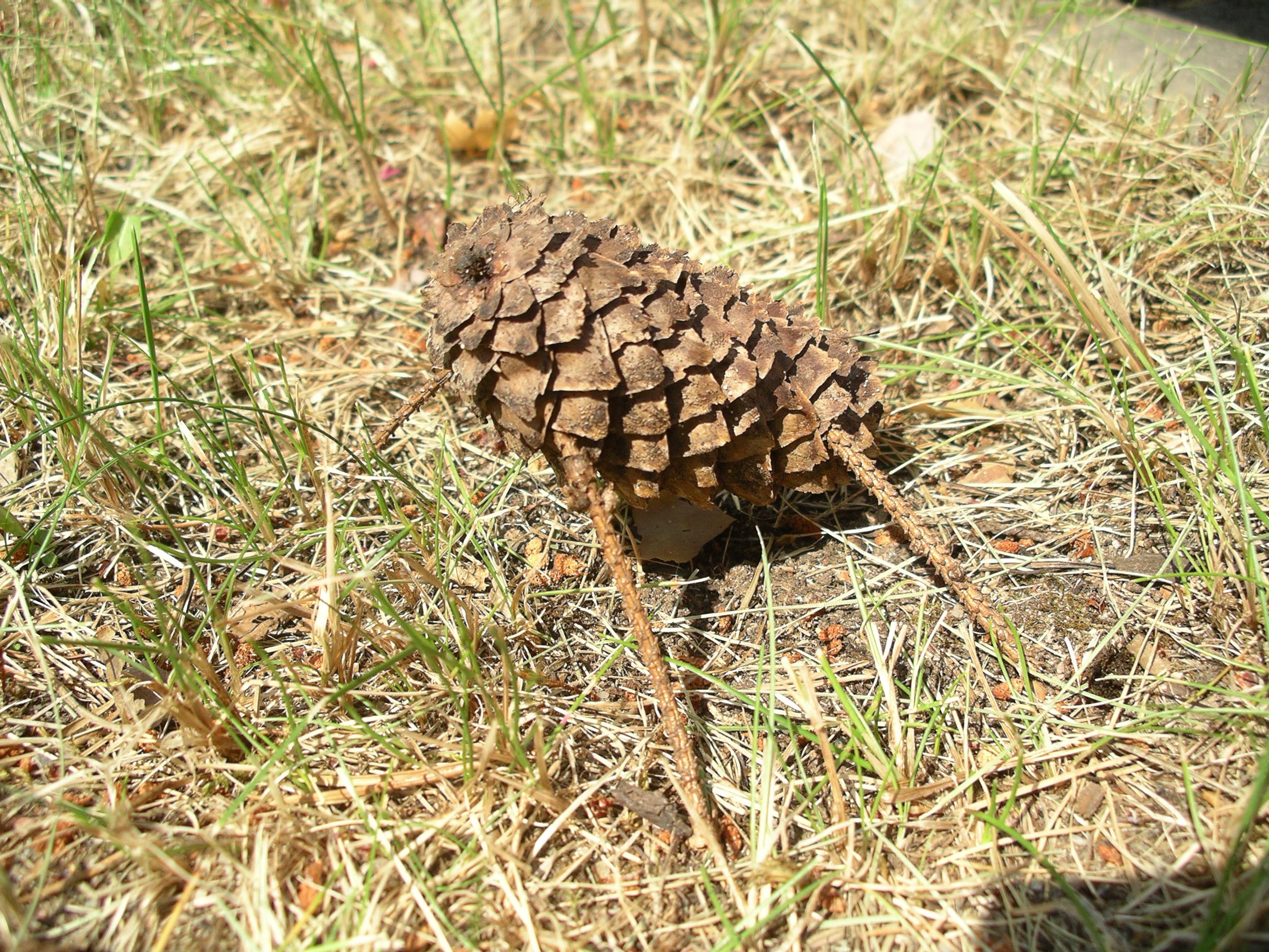 Image of a Käpylehmä, home-made children's toy cow. The cow is made of a spruce cone and some sticks, all readily available. These toys have been used at least in Finland, but have become rarer as plastic has become a more popular material for toys.